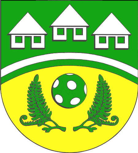 Coat of arms of the municipality Nindorf in Schleswig-Holstein, Germany.